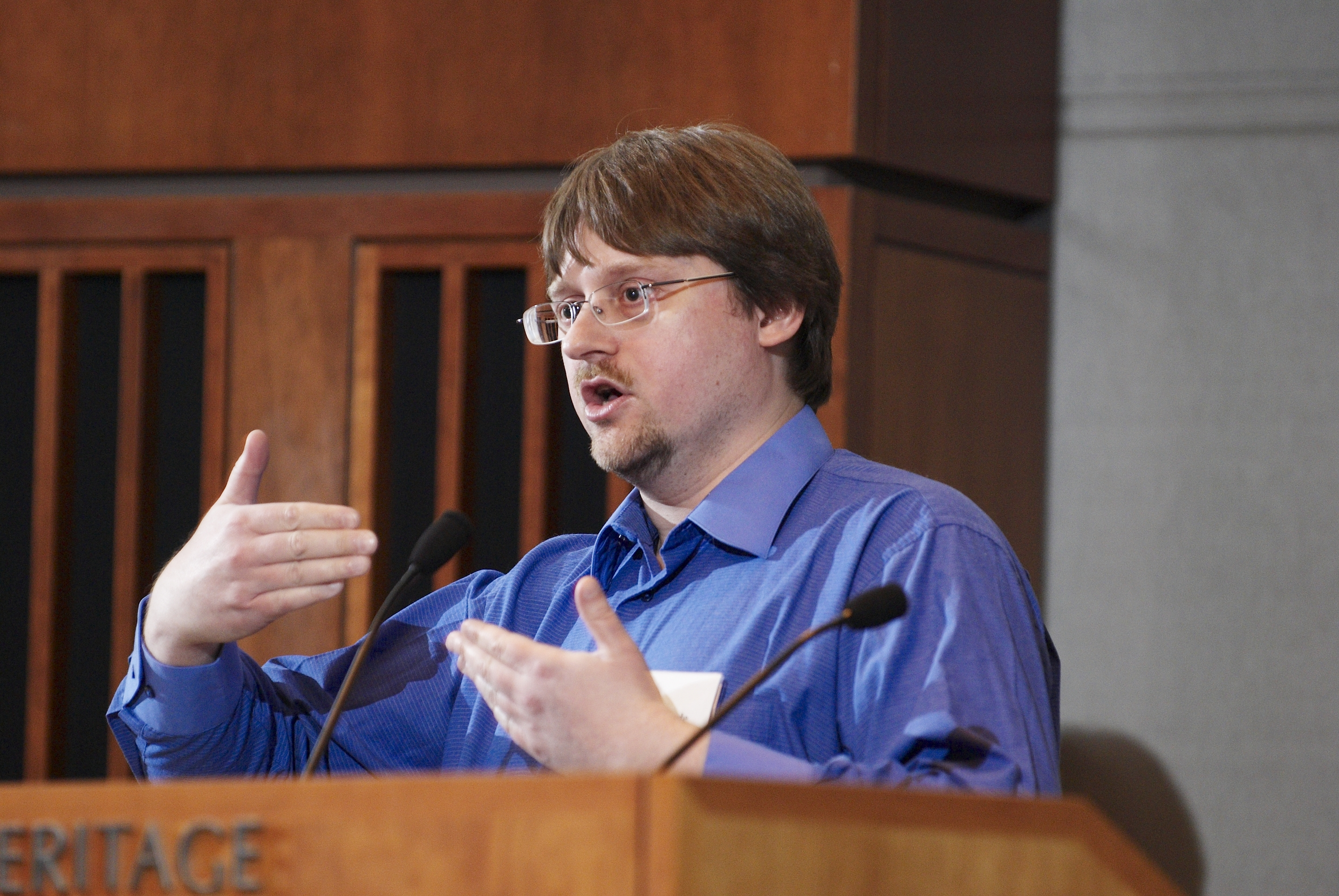 Photograph of Jean-Claude Bradley, speaker at LISE 2008 (Leadership Initiative in Science Education, 8th Annual Conference), "New Media and Technology in Science Education", April 28-29, 2008, organized by the Chemical Heritage Foundation.